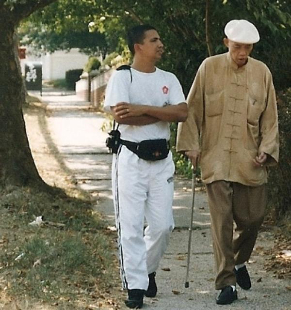 Grandmaster Moy Yat walk with Master Julio Camacho in Rio de Janeiro.